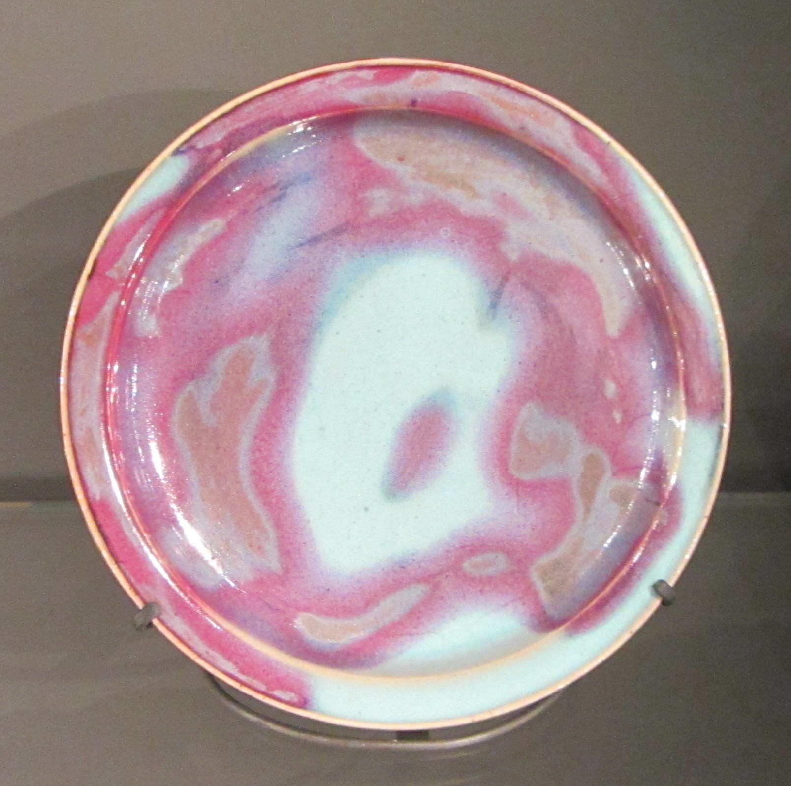 Jun ware dish with opalescent blue and lavender splashed glazes. Jin dynasty, 1115-1234. SizeDiameter: 18.5 cmLocationG95